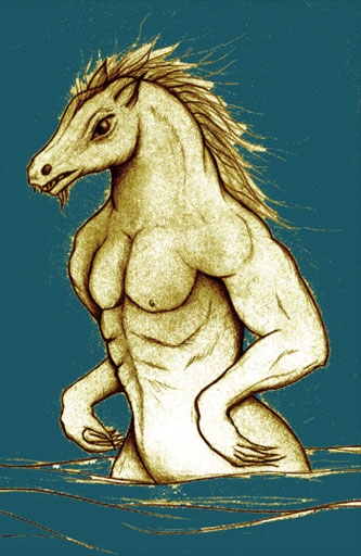 Each Uisge, a supernatural water horse found in the lochs of Scotland.